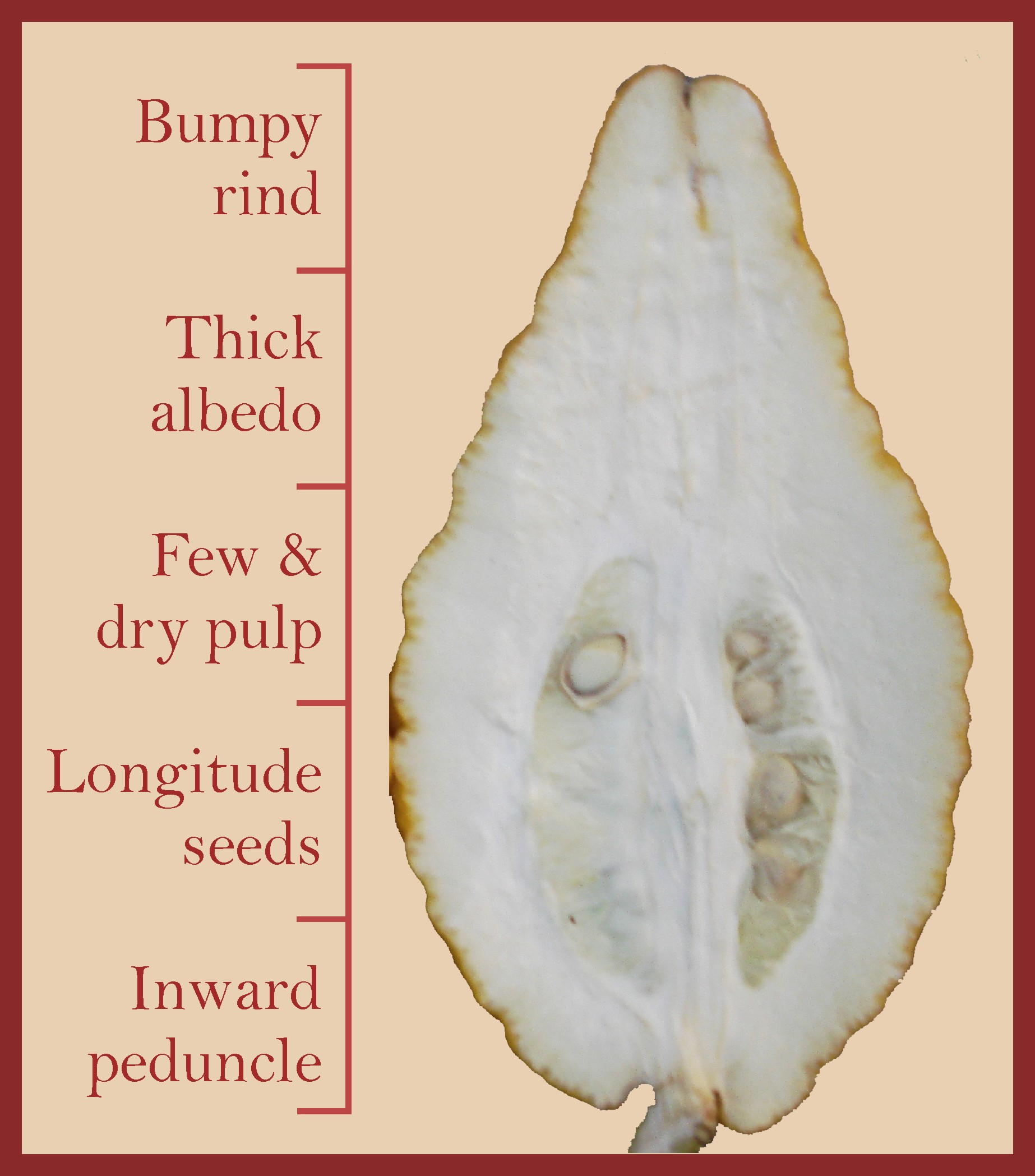 specifying the indicators on a kosher etrog